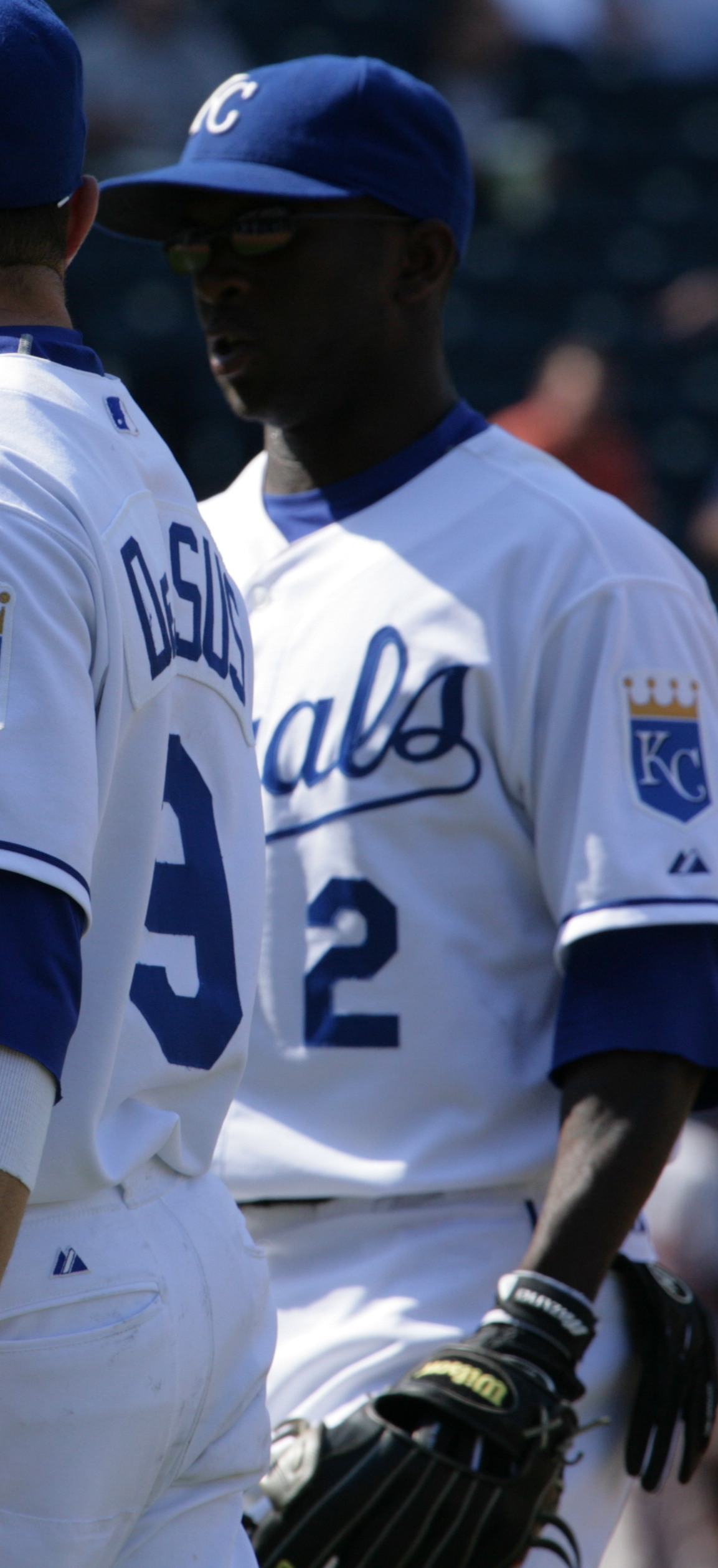 Joey Gathright with the Kansas City Royals in 2007